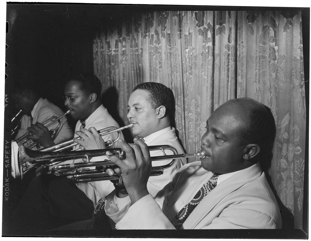 Gottlieb, William P., 1917-, photographer. [Portrait of Franc Williams, Harold Baker, and Cat Anderson, Aquarium, New York, N.Y., ca. Nov. 1946] 1 negative : b&w ; 3 1/4 x 4 1/4 in. Notes: Gottlieb Collection Assignment No. 038 Reference print available in Music Division, Library of Congress. Purchase William P. Gottlieb Forms part of: William P. Gottlieb Collection (Library of Congress). Subjects: Williams, Franc Baker, Harold, 1914-1966 Anderson, Cat Duke Ellington Orchestra Jazz musicians--1940-1950. Trumpet players--1940-1950. Big bands--1940-1950. Aquarium Format: Portrait photographs--1940-1950. Group portraits--1940-1950. Film negatives--1940-1950. Rights Info: Mr. Gottlieb has dedicated these works to the public domain, but rights of privacy and publicity may apply. Repository: (negative) Library of Congress, Prints & Photographs Division, Washington D.C. 20540 USA, (reference print) Library of Congress, Music Division, Washington D.C. 20540 USA, Part Of: William P. Gottlieb Collection (DLC) 99-401005 General information about the Gottlieb Collection is available at Persistent URL: Call Number: LC-GLB13- 0243 This work is from the William P. Gottlieb collection at the Library of Congress. Rights and restrictions.In accordance with the wishes of William Gottlieb, the photographs in this collection entered into the public domain on February 16, 2010.